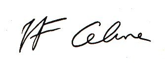 Signature of Céline